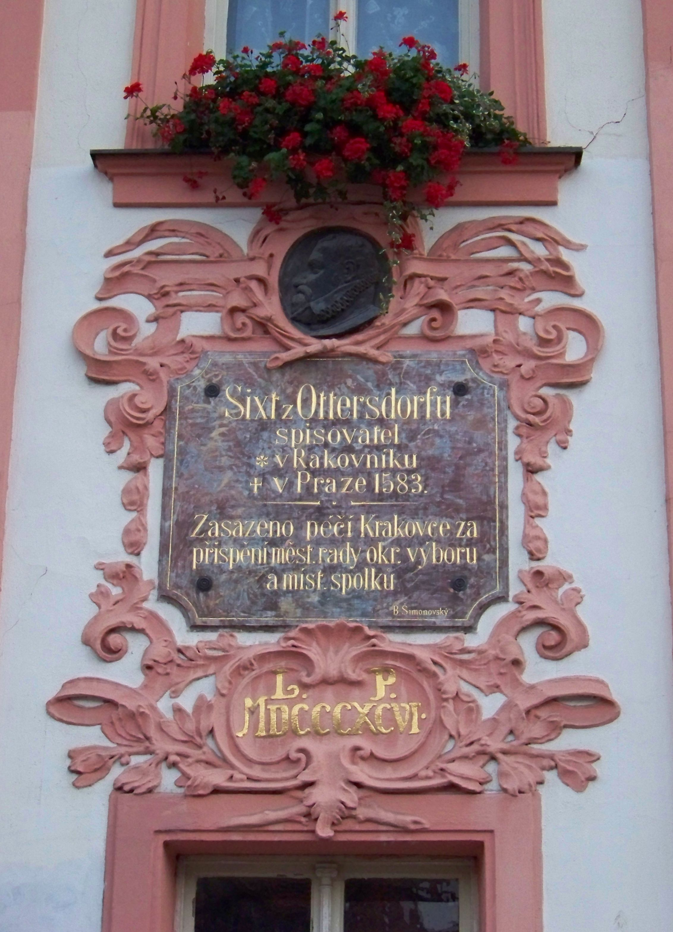 Rakovník I, Rakovník District, Central Bohemian Region, the Czech Republic. Jan Hus Square 27, town hall, a plaque to Sixt von Otterdorf.